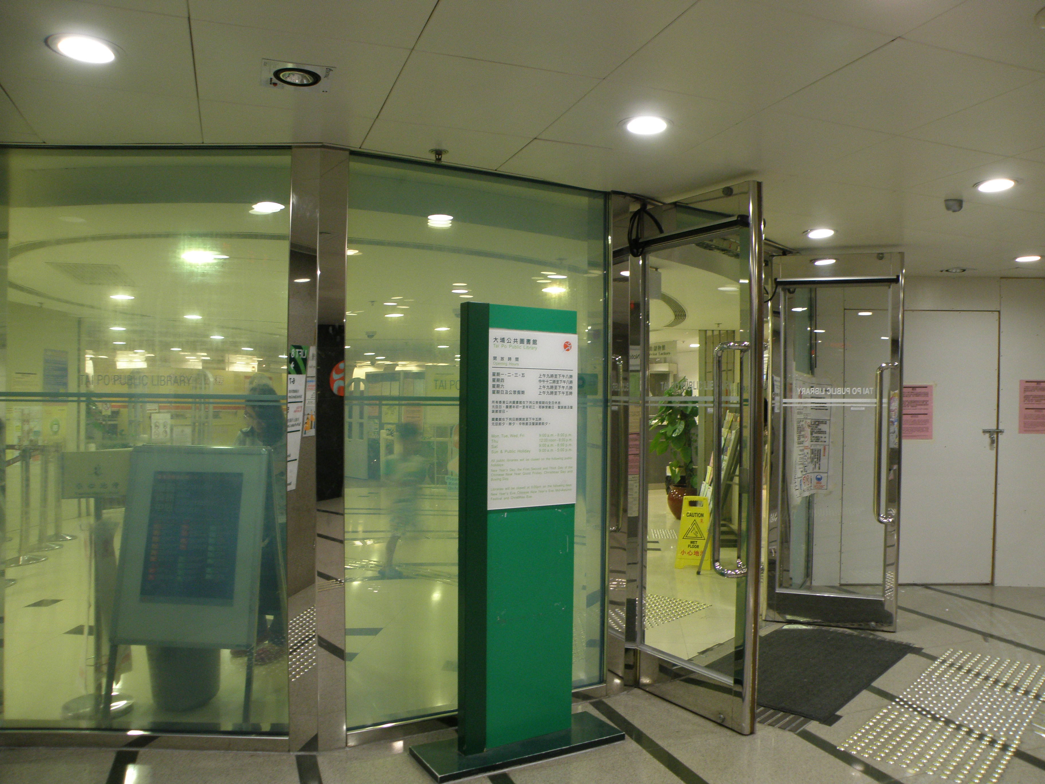 Tai Po Public Library in Tai Po, Hong Kong.